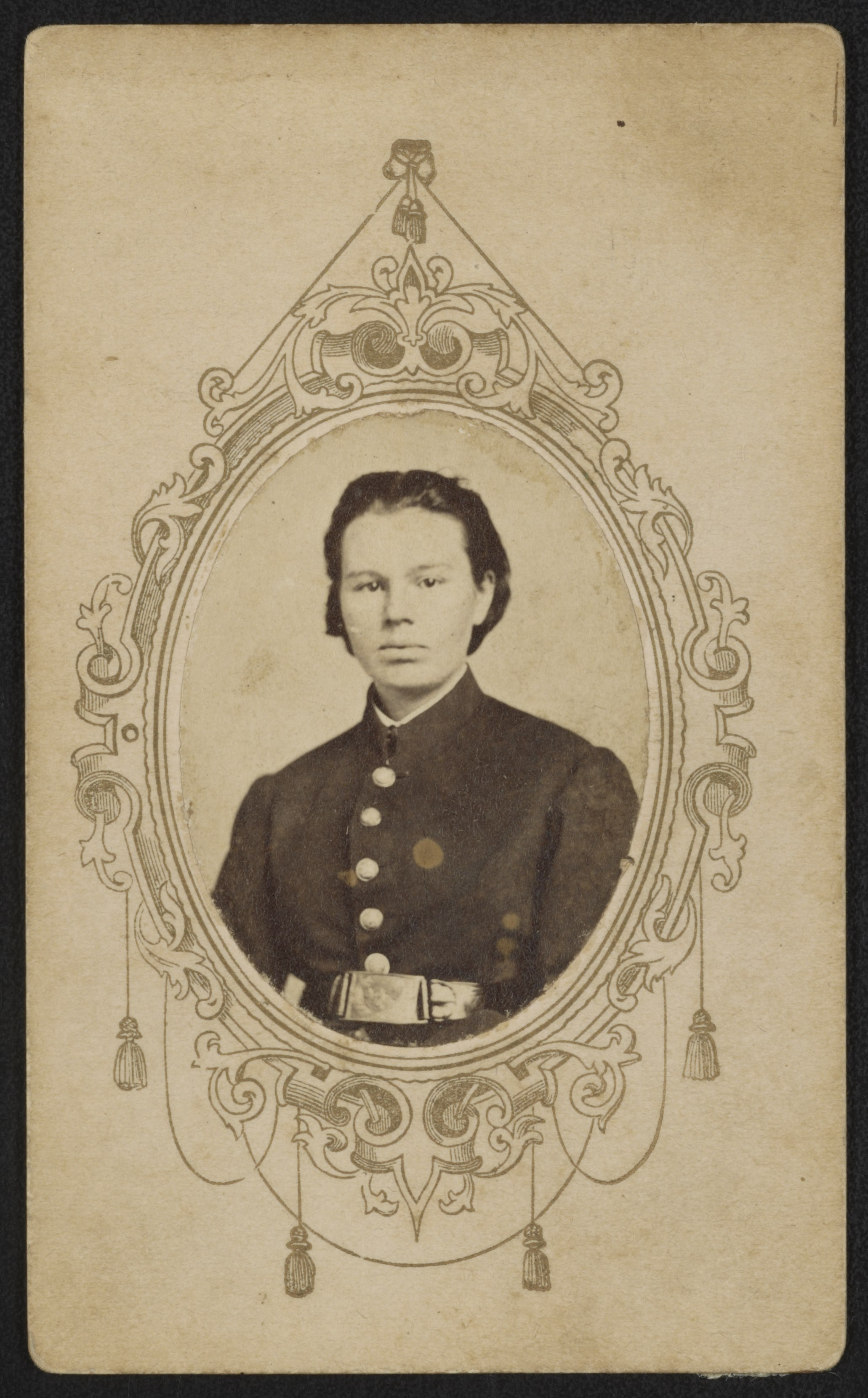 Title: Frances Hook, also known as Private Frank Miller, Frank Henderson, and Frank Fuller of Co. G, 90th Illinois Infantry Regiment, 33rd Illinois Infantry Regiment, and 11th Illinois Infantry Regiment in uniform] / T.J. Merritt's National Portrait Gallery, 42 and 44 Union Street, Nashville, Tenn Abstract/medium: 1 photograph : albumen print on card mount ; mount 11 x 6 cm (carte de visite format)